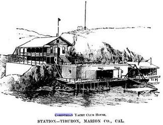 Corinthian Yacht Club House c 1894 Timburon Marion Co California